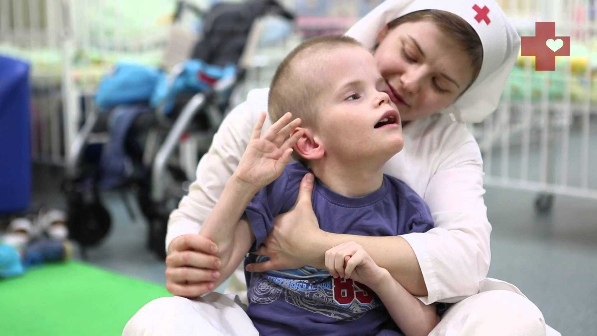 Sister of mercy takes care of a disabled child